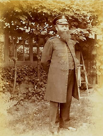 Commissioner John Lawley of the Salvation Army